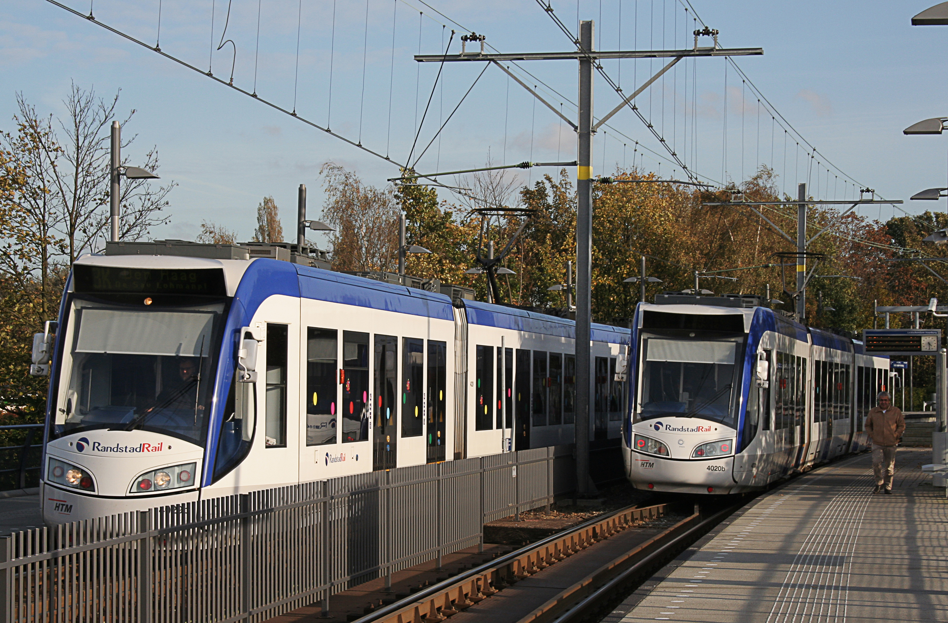 Station Leidschendam-Voorburg